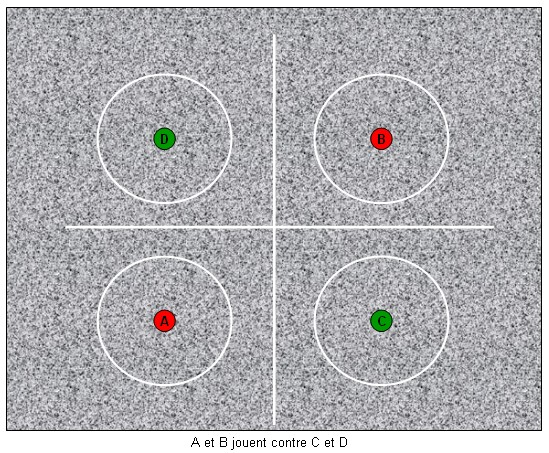 Pilou field